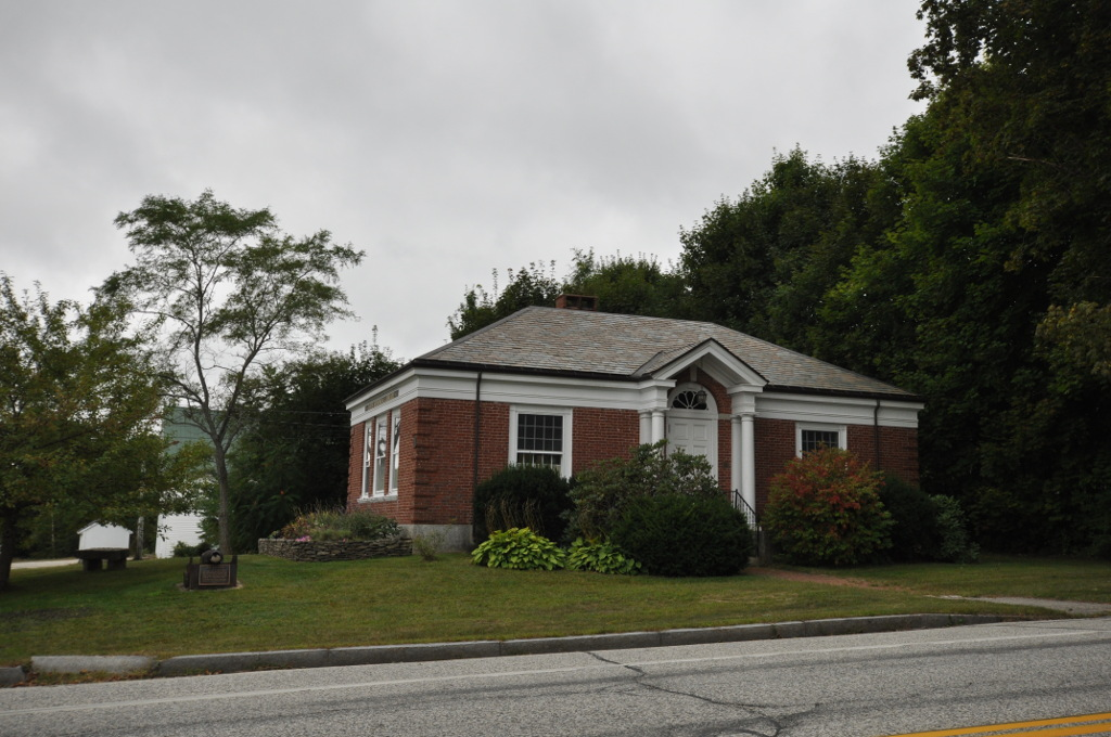 Limington Library, Limington, Maine; part of the Limington Historic District.